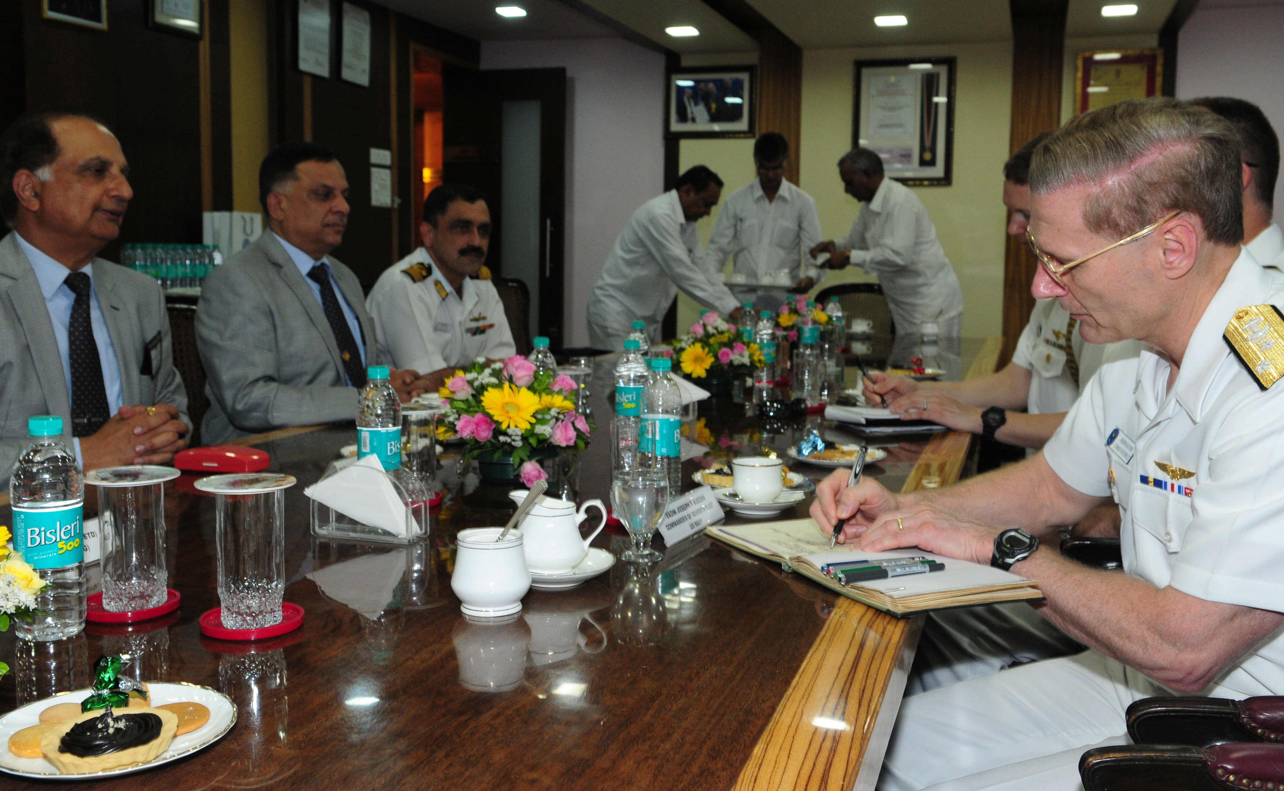 MUMBAI, India (April 5, 2016) Commander, U.S. 7th Fleet Vice Adm. Joseph Aucoin signs a guest book during a meeting hosted by staff at the Mazagon Dock Shipbuilders Limited shipyard. The U.S. 7th Fleet flagship USS Blue Ridge is currently on patrol in the Indo-Asia-Pacific area of operation to build partnerships for the security and stability of the region. (U.S. Navy photo by Mass Communication Specialist 2nd Class Indra Bosko/Released) Unit: Commander, U.S. 7th Fleet Public Affairs DVIDS Tags: USS Blue Ridge; India; Partnerships; Indian Navy; Joseph Aucoin; Seventh Fleet; Aucoin; #7thFleet